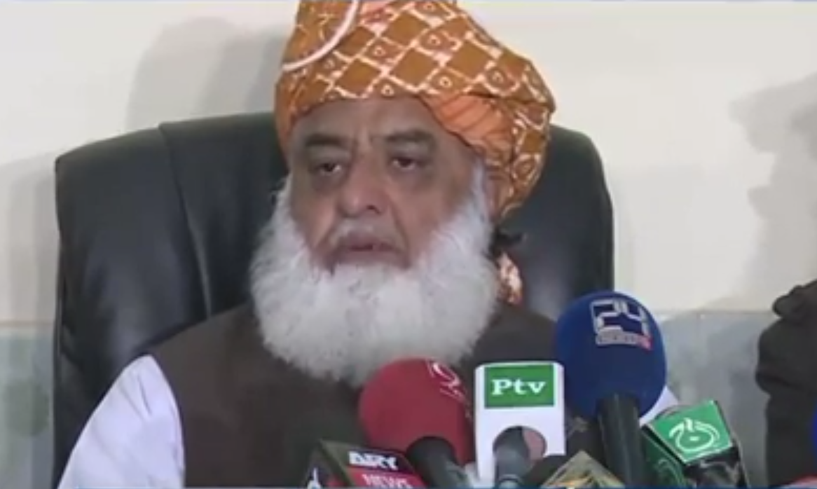 Maulana Fazl-ul-Rahman of Jamiat Ulema-e-Islam (F)